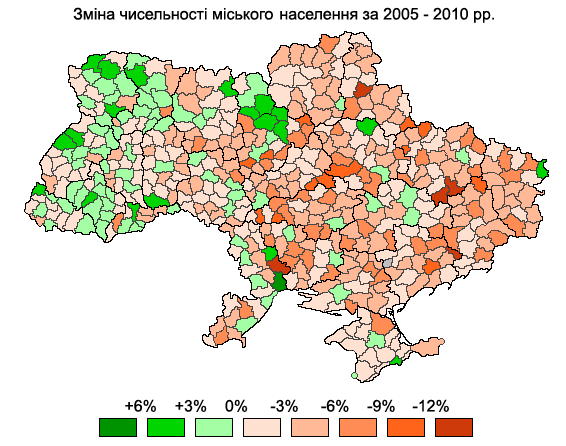 Change of urban population in Ukraine, 2005 - 2010